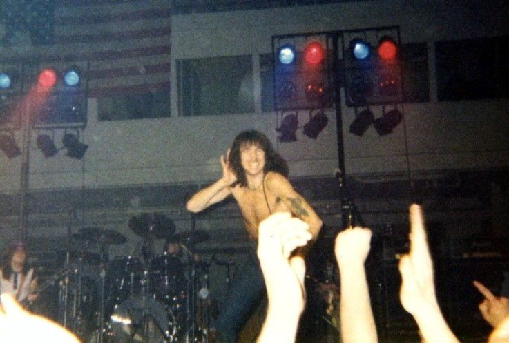 AC/DC with Bon Scott.